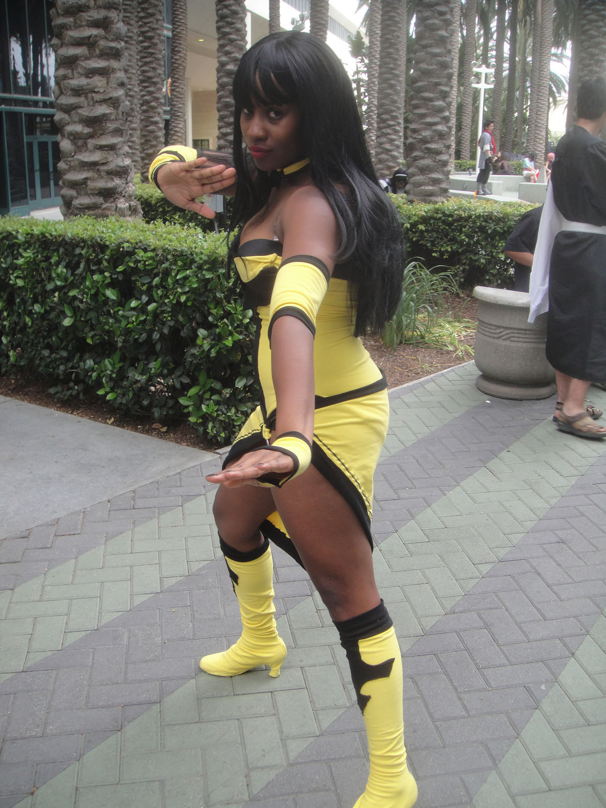 AM2 Con 2012 cosplay